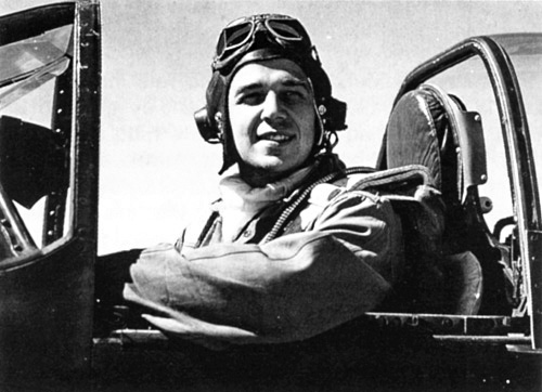 Major Robert Foy of the 363rd Squadron United States Army Air Forces